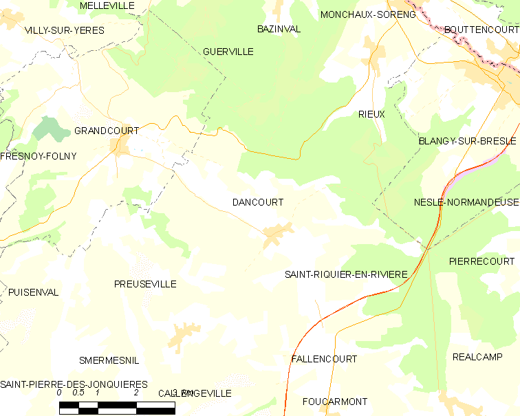 Map of French municipality Dancourt